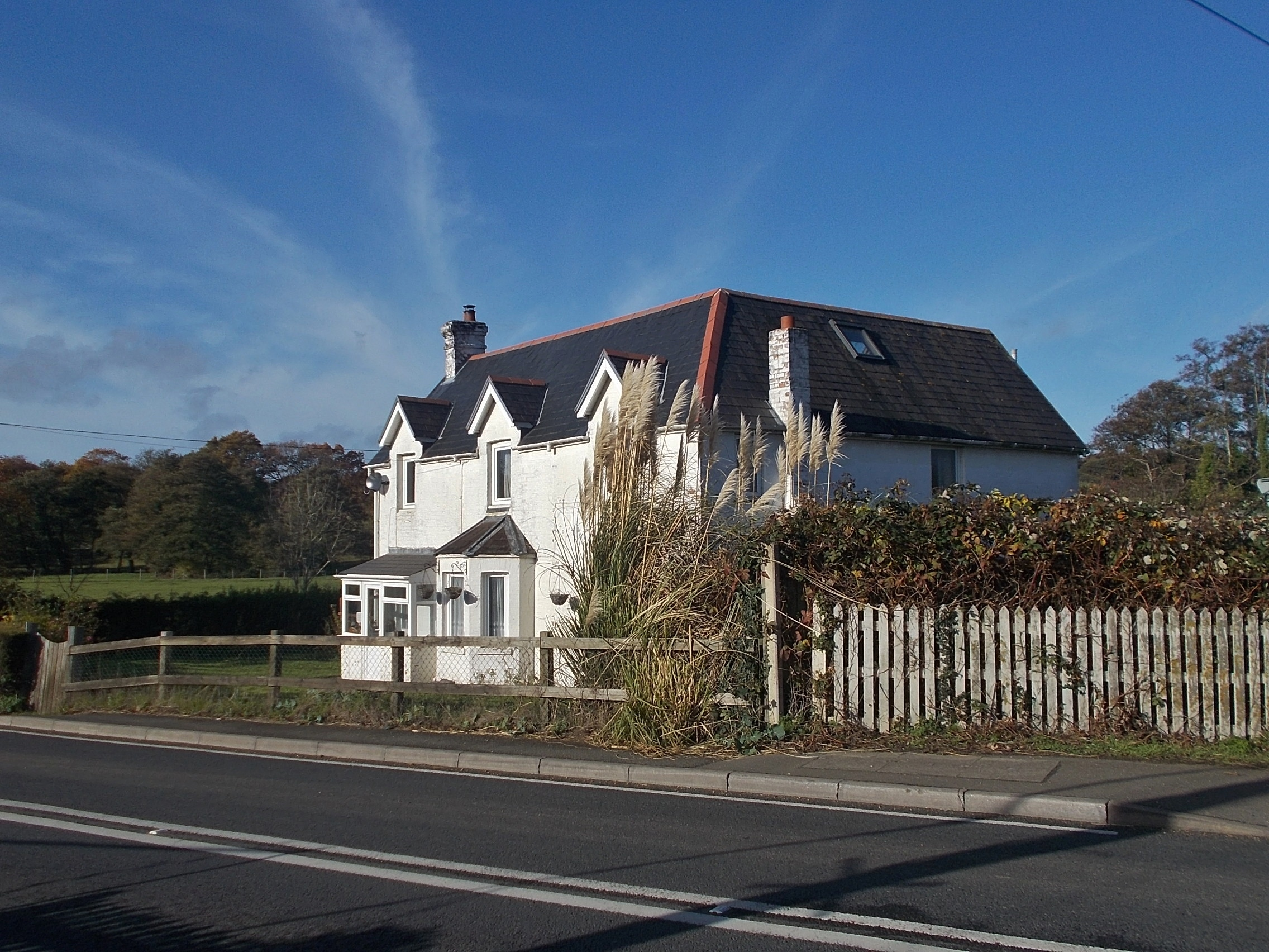 The former Blackwater railway station, Isle of Wight, UK